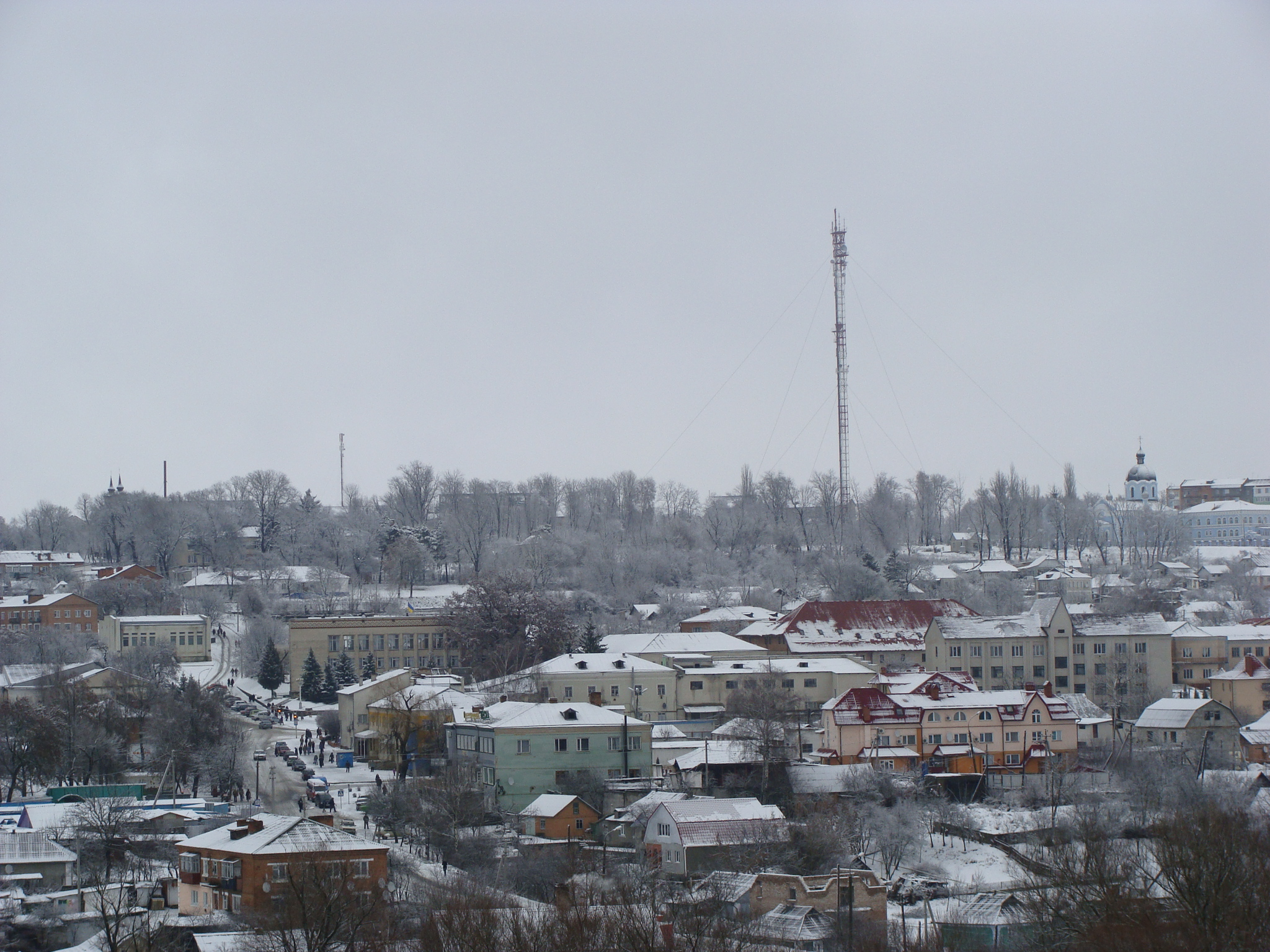 Horodok, Khmelnytskyi Oblast in winter. Town center is seen in the lower left center.